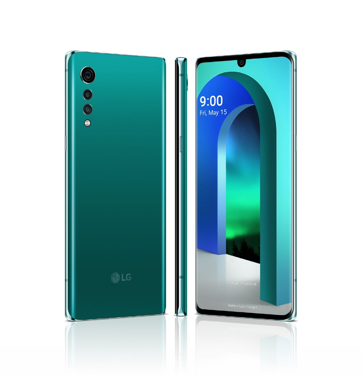 Aurora green version of the LG Velvet smartphone